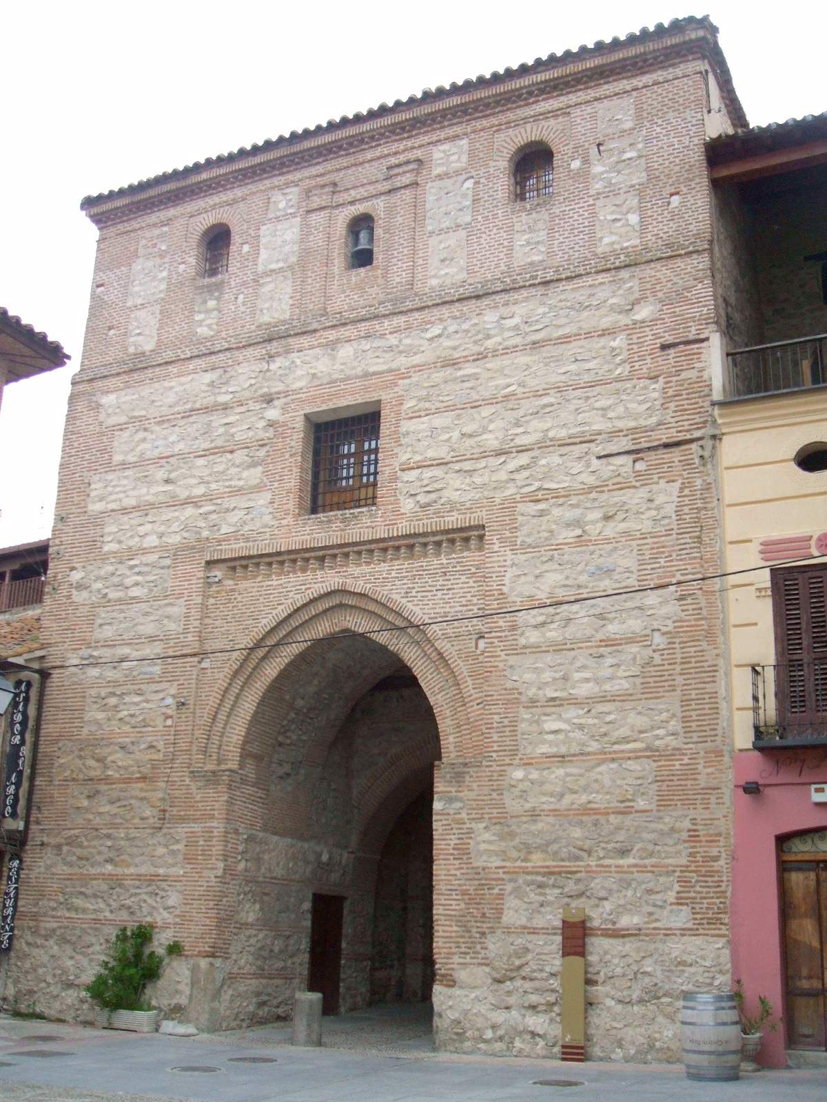 Arco de Alcocer (Arévalo)